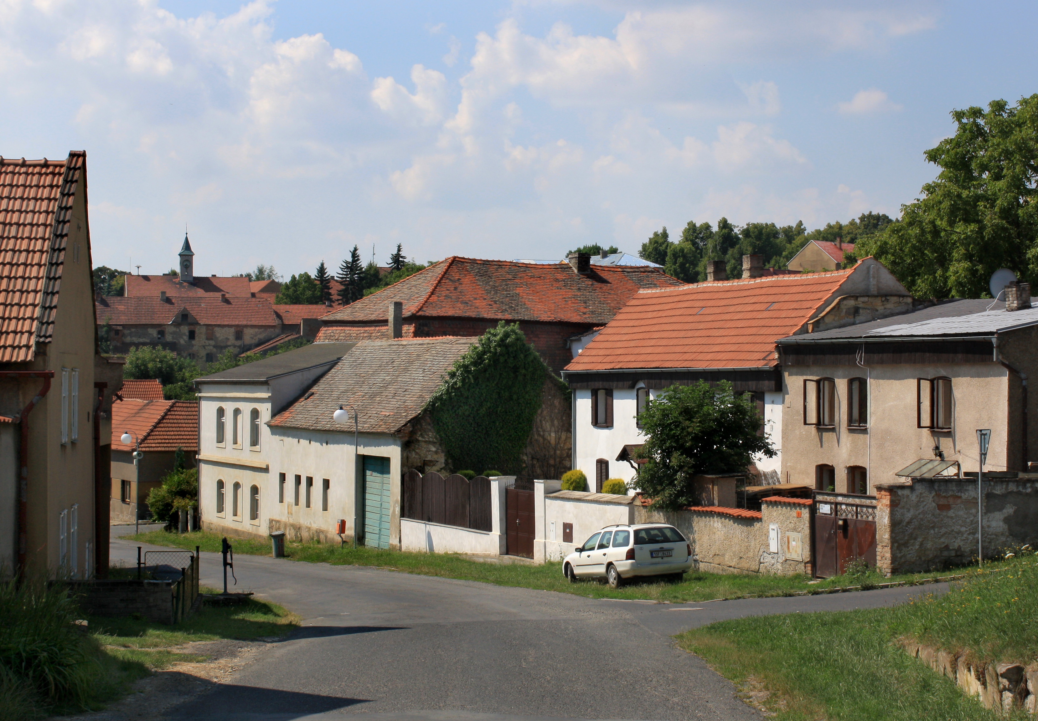 North part of Vraný, Czech Republic